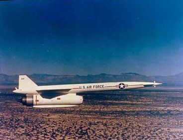 AGM-28 Hound Dog Air-launched nuclear missile